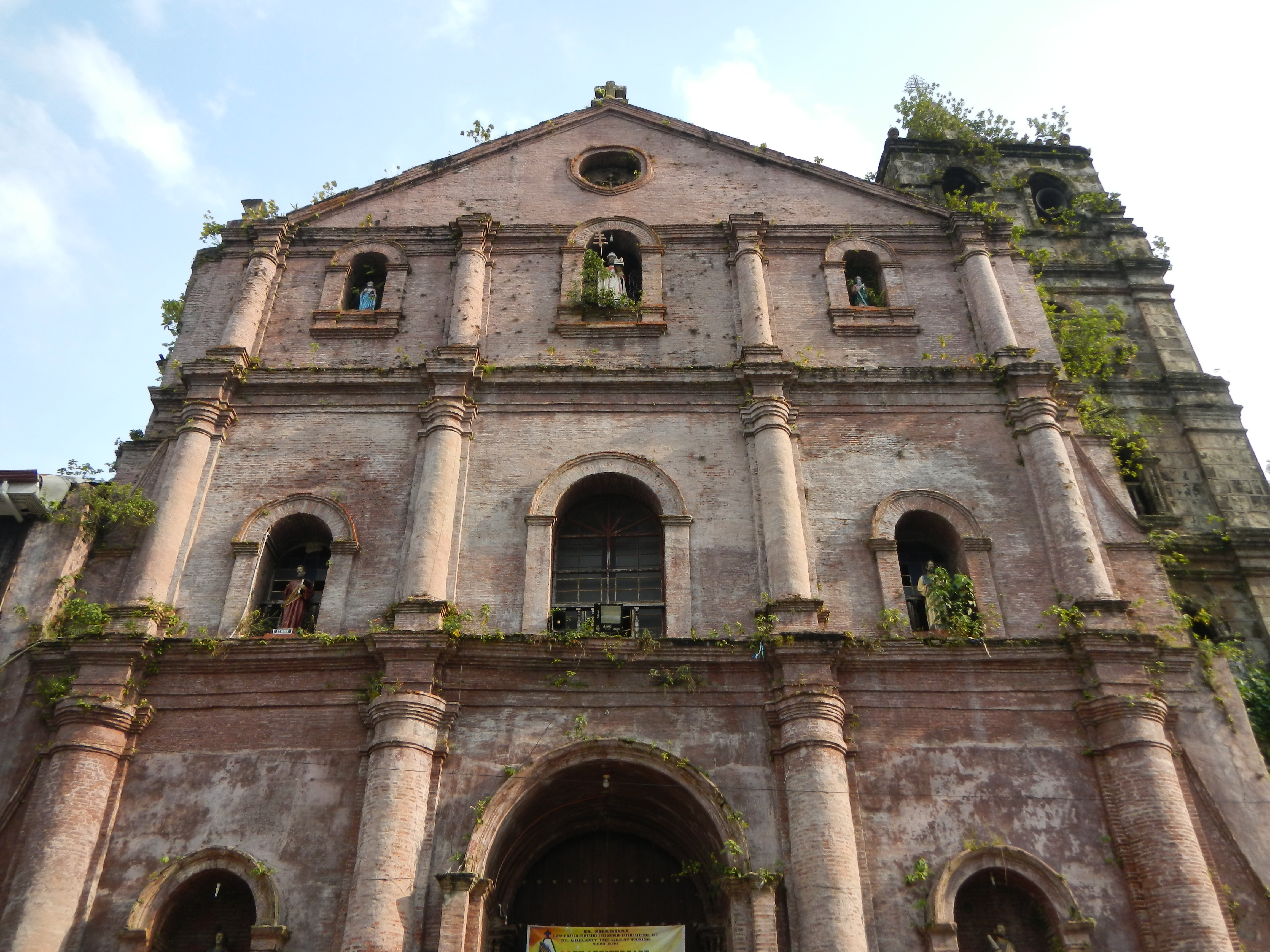 Upload Wizard -- (general description of landmarkds, town, church) - of - Town Proper, - 1573 Saint Gregory the Great Parish Church of Majayjay, Majayjay, Laguna [1], - (belongs to the Roman Catholic Diocese of San Pablo[2] - [3] Saint Gregory the Great Parish Address: Poblacion, Majayjay 4005 Laguna, Philippines Feast day: March 12 Parish Priest: Father Cesar A. Gonzales, Jr. Vicariate of San Bartolome Apostol Vicar Forane: Father Larry R. Abayon.[4] - Town Proper, Centro, downtown, [5] Coordinates: 14°6'14"N 121°30'46"E F. Blumentritt St, Majayjay, Laguna, Calabarzon[6] - Majayjay, Laguna [7] (a fourth class municipality in the province of Laguna, Philippines, located at the foot of Mount Banahaw,[8] stands 1,000 feet above sea level; latest census, it has a population of 24,791 politically subdivided into 40 barangays).